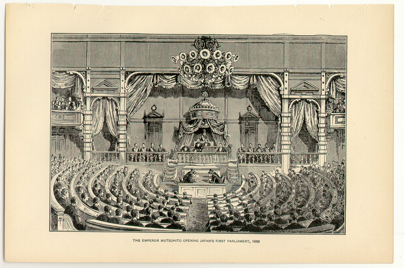 The Emperor Mutsuhito Opening Japan’s First Parliament